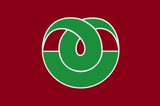 Flag of Matsuzaki Shizuoka